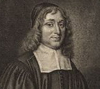 by; after Robert White; Unknown artist,print,published 1680